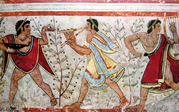 Etruscan Painting - Tomba dei Leopardi - Tarquinia - Italia